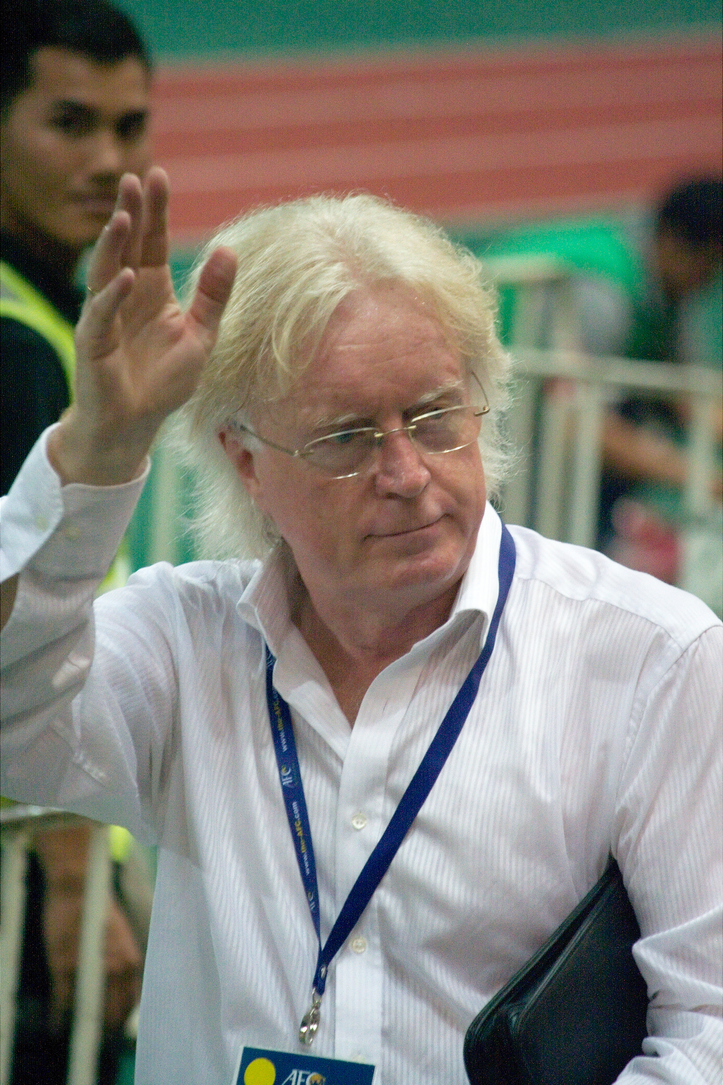 Thailand's German head coach Winfried Schäfer after the World Cup 2014 third round qualifying match against Oman at Rajamangala Stadium